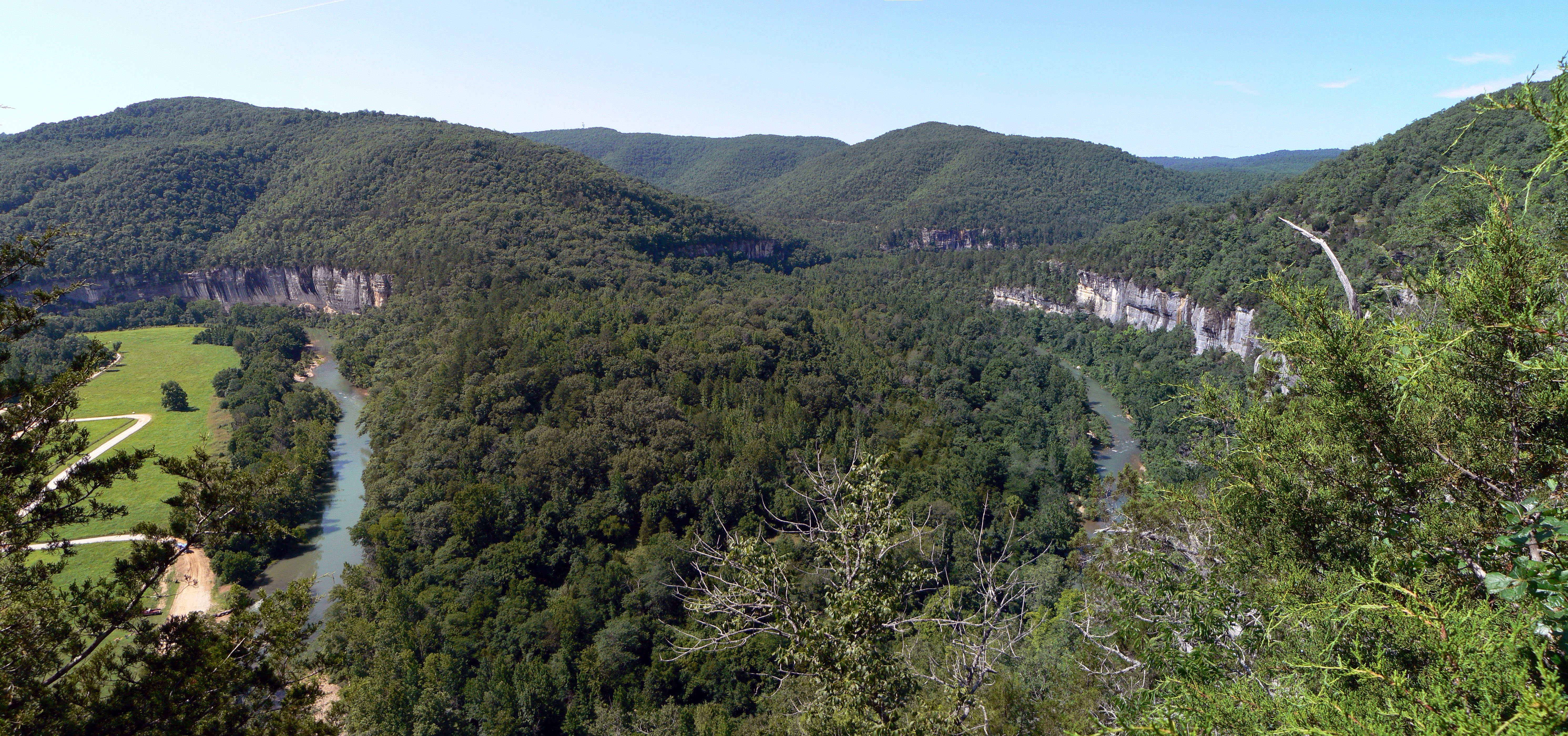 Bend in the Buffalo River from an overlook on the Buffalo River Trail near Steel Creek.